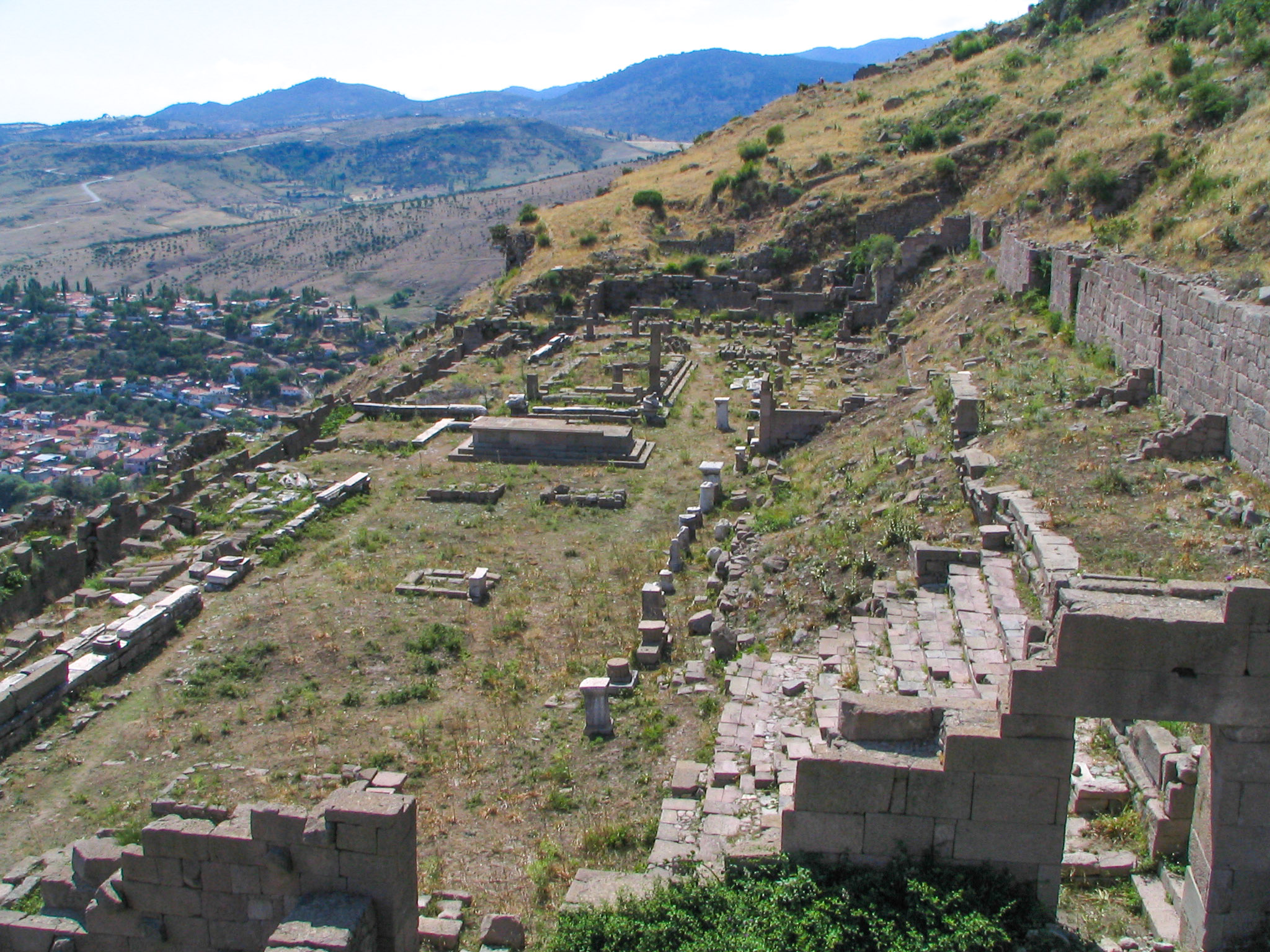 Pergamon (Bergama, Turkey), Sanctuary of Demeter, from the East (aprox.)